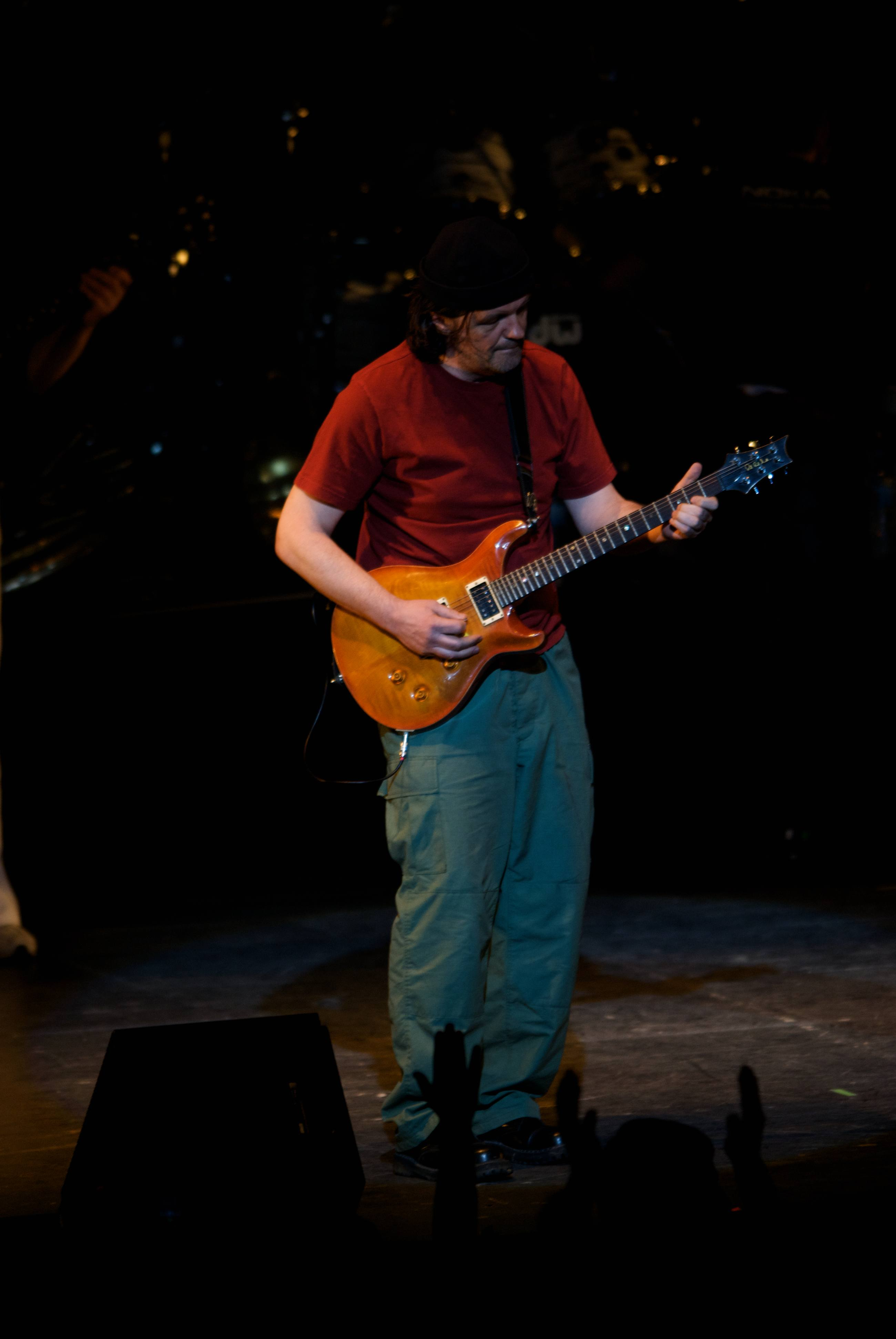 Emir Kusturica. Performing with No Smoking Orchestra at the Telmex Auditorium.